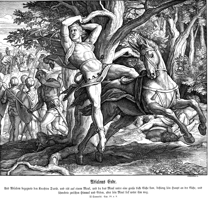 Engraving. Death of Absalom. From "Bibel in Bildern"